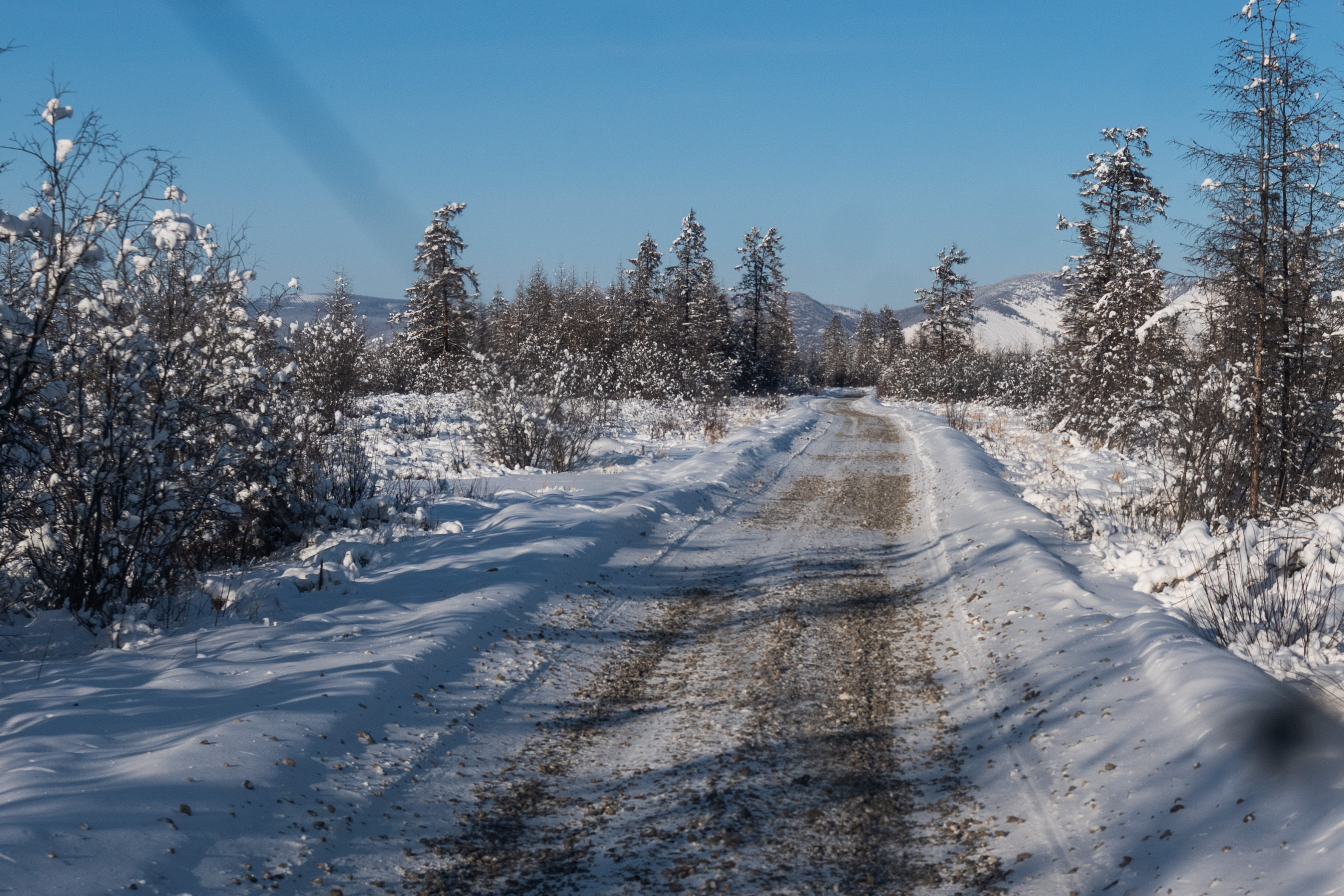 Oymyakon, Sakha Republic, Russia